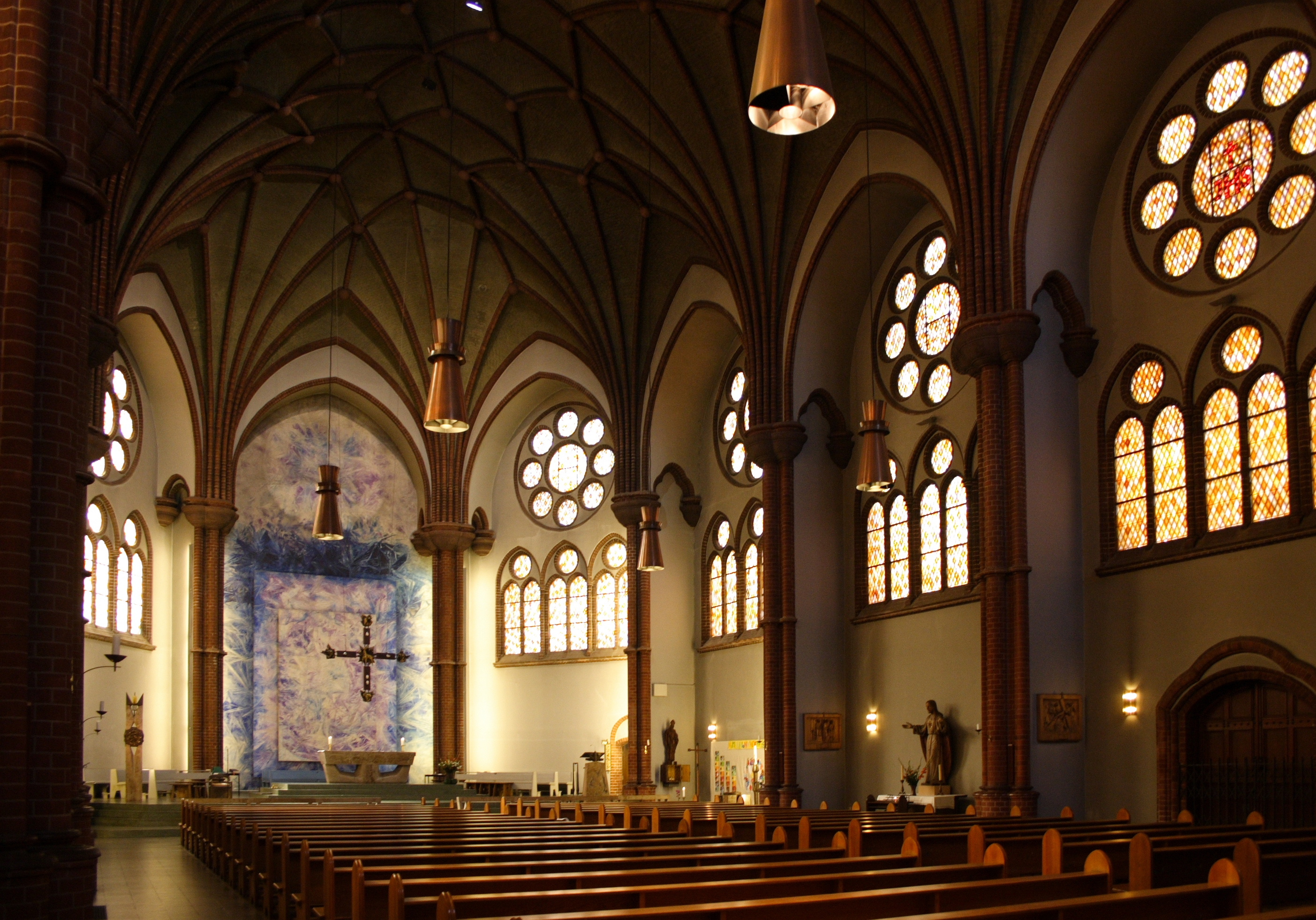 Inside view of St Boniface in Berlin-Kreuzberg.